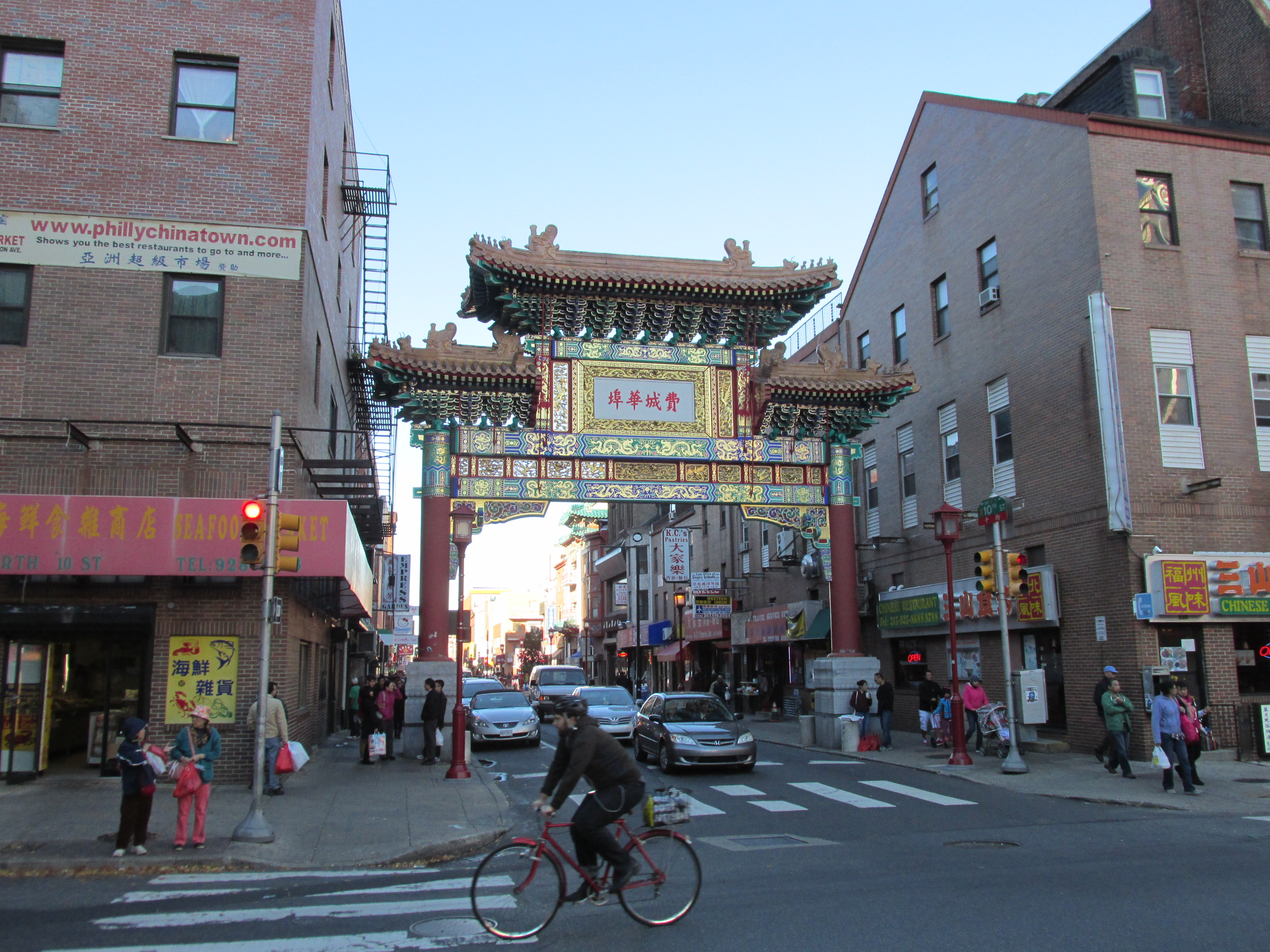 Chinatown, Philadelphia Pennsylvania